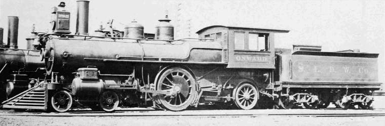 Swinerton Locomotive 'Onward' This rather ineffective 4-2-2 locomotive (with only one driving axle) was built in 1887 by the Hinkley Locomotive Works, located in Boston.